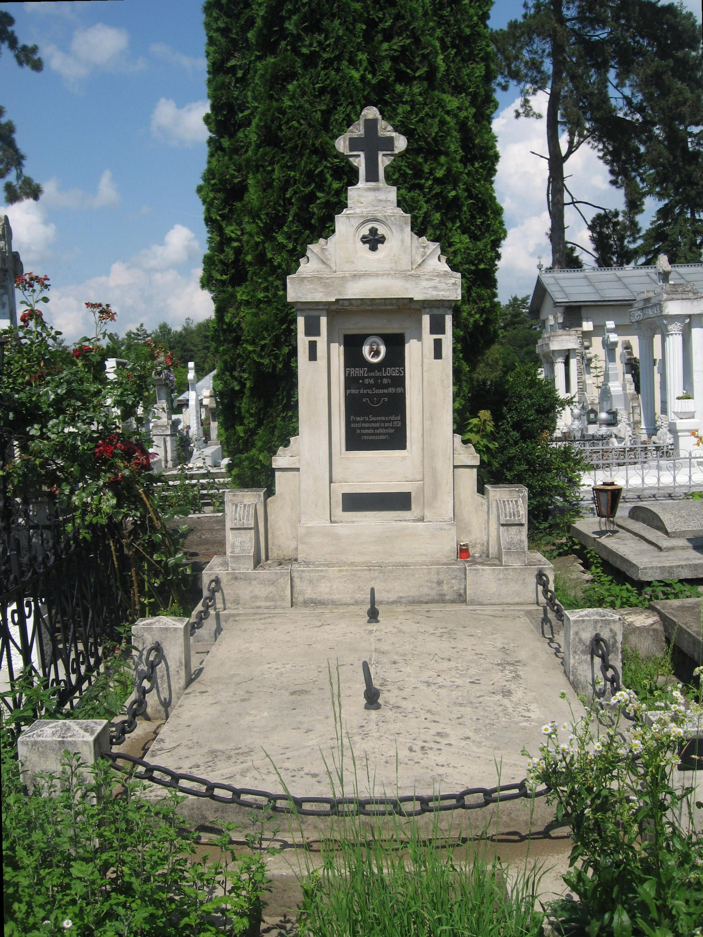 Pacea Cemetery in Suceava - Tomb of Franz Des Loges.